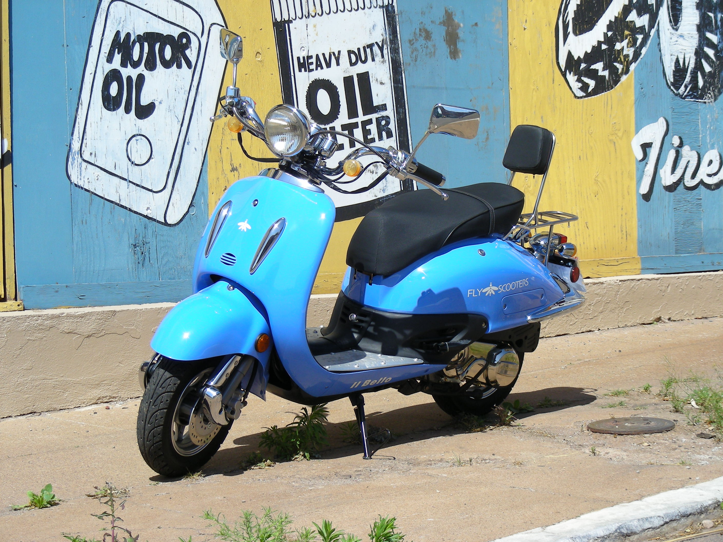 Flyscooters 2006 classic-vintage looking Il Bello model. Imitation of Honda Joker